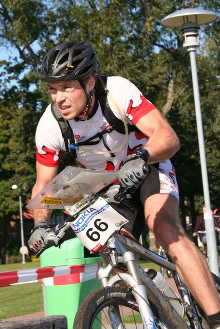 This work is free and may be used by anyone for any purpose. If you wish to use this content, you do not need to request permission as long as you follow any licensing requirements mentioned on this page.